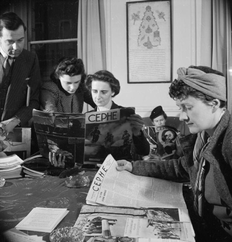 Britons Learn Turkish- Adult Education in London, 1943 British associate members of the Londra Turk Halkevi read copies of the Turkish magazine 'Cephe' to help their study of the language. Left to right they are: Mr J P Hardy, Miss Nora Bagguley, Miss K Griffin and Miss Blundell. Most are learning Turkish for business reasons. Behind them on the wall is an old Imperial Decree written in ancient Arabic script. It was presented to the Halkevi by Sultan Mahmut.